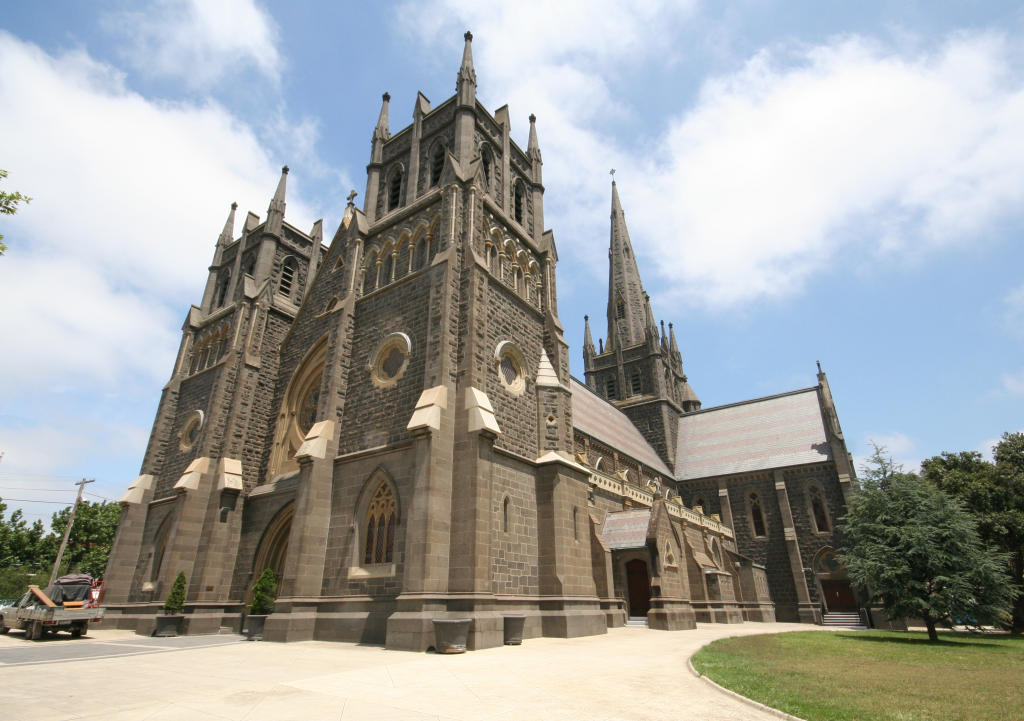 St. Mary of the Angels Basilica - Geelong, Victoria, Australia